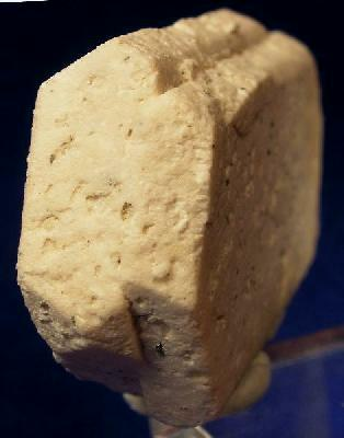 Kaolinite, Orthoclase Locality: St Austell District, Cornwall, England, UK (Locality at ) Size: miniature, 4.5 x 2.6 x 1.1 cm Kaolinite ps. Orthoclase twin Very good and relatively large pseudomorph of Kaolinite after an Orthoclase Karlsbad twin. The off-white color is attractive, but what really makes this is the well-preserved habit of the twinned crystal. Overall, a very fine specimen from one of England�s most famous localities.